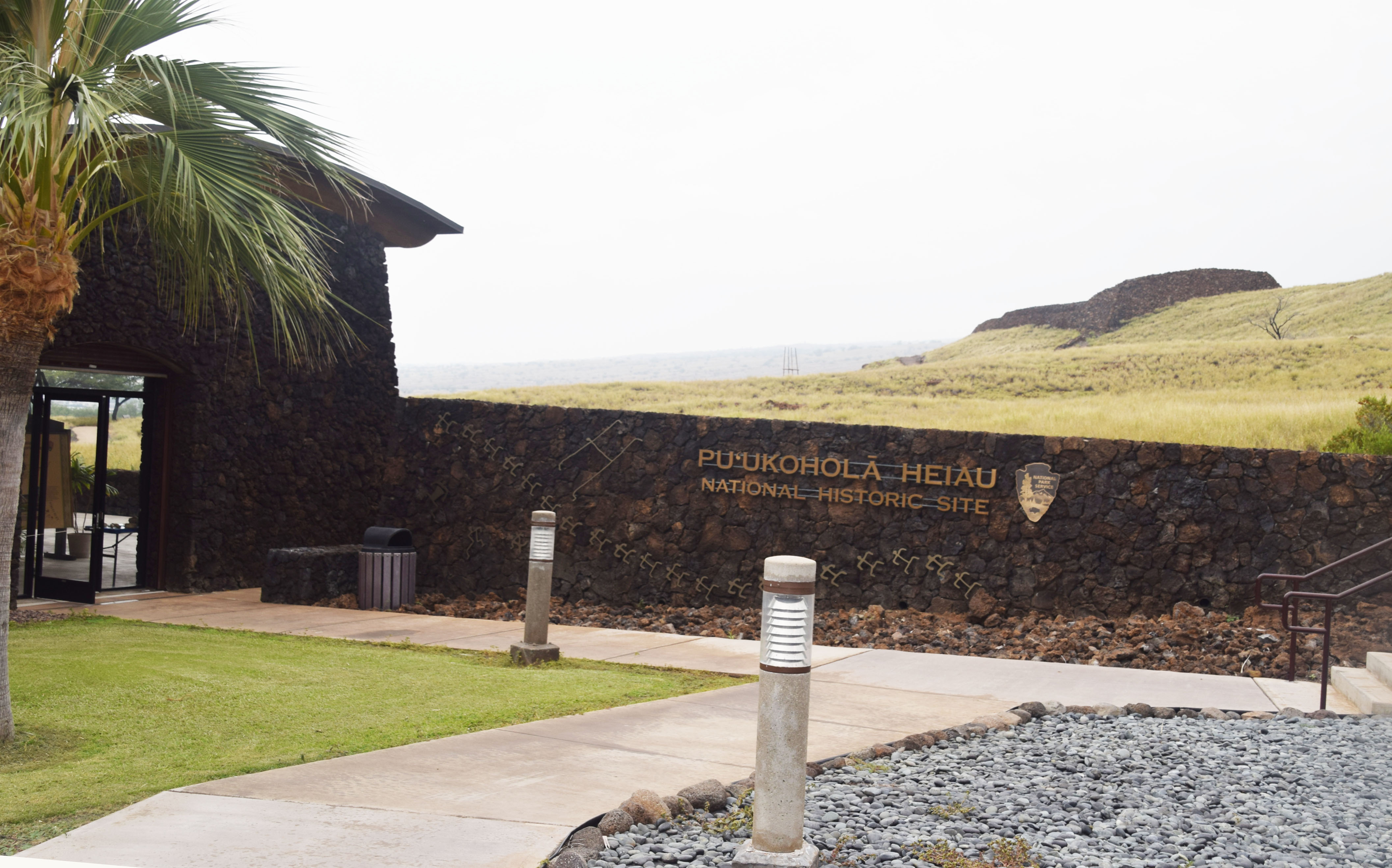 Pu'ukohola Heiau - The entrance to Information Center, Hawaii